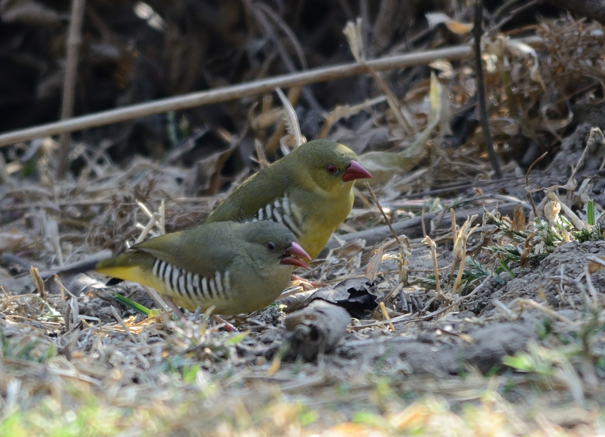 Green Munia (Amandava formosa) pair from Mt. Abu, Rajasthan, India